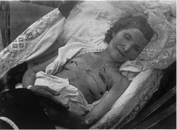 Portrait of Velika Traikova dead body, killed by IMARO